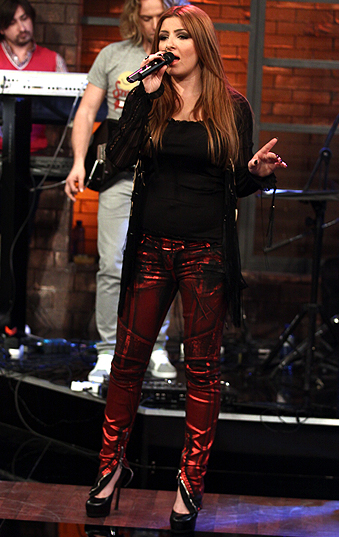 Helena Paparizou sings "Baby It's Over" at "Vrady Me Ton Petro Kostopoulo" show!